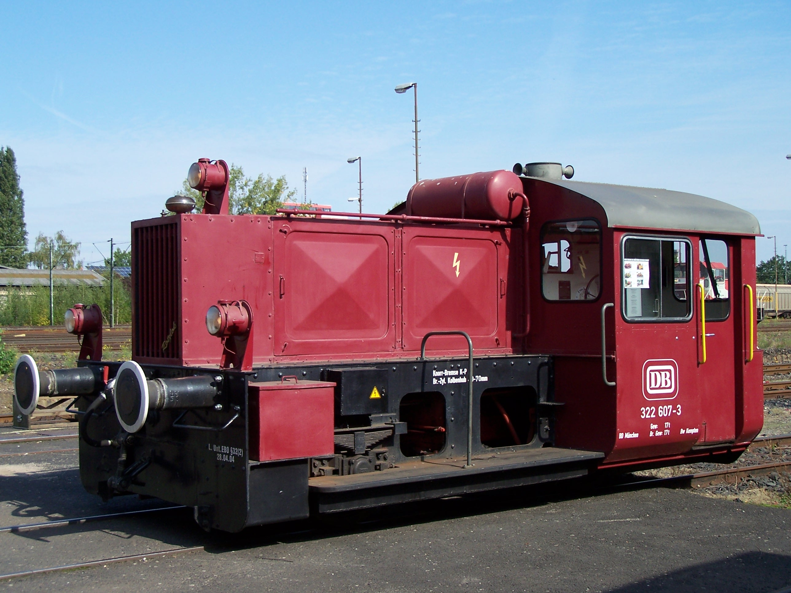 Koe II 322607-3 of the HEF in Frankfurt am Main on the Hafenbahn ground